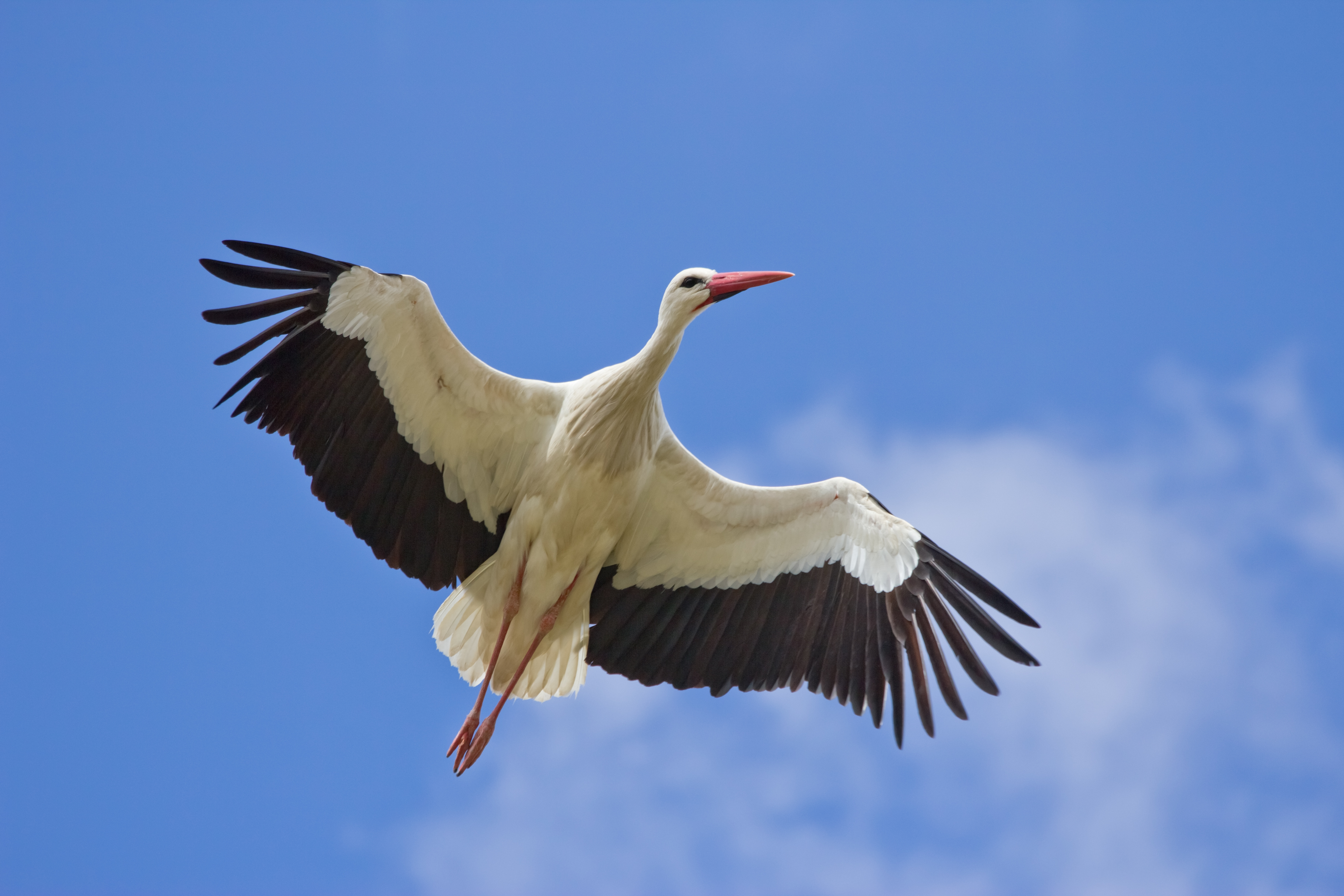 White Stork (Ciconia ciconia) in Madrid, Spain.